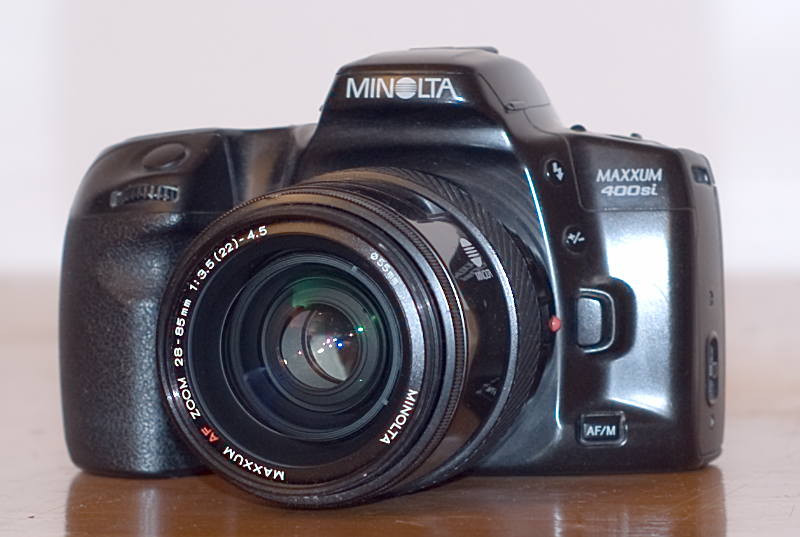 Minolta Maxxum 400si Minolta AF 28-85 f/3.5-4.5